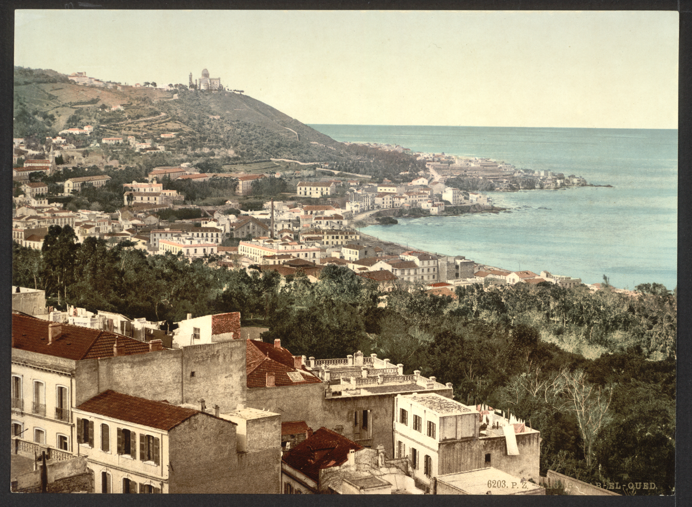 This photochrome print is from “Views of People and Sites in Algeria” in the catalog of the Detroit Photographic Company. It depicts Babel-Oued (Bab El Oued), a neighborhood of Algiers, as seen from the fortified citadel, or Casbah. The Detroit Photographic Company was launched as a photographic publishing firm in the late 1890s by Detroit businessman and publisher William A. Livingstone, Jr. and photographer and photo-publisher Edwin H. Husher. They obtained the exclusive rights to use the Swiss "Photochrom" process for converting black-and-white photographs into color images and printing them by photolithography. This process permitted the mass production of color postcards, prints, and albums for sale to the American market. Cities and towns; Coastal settlements